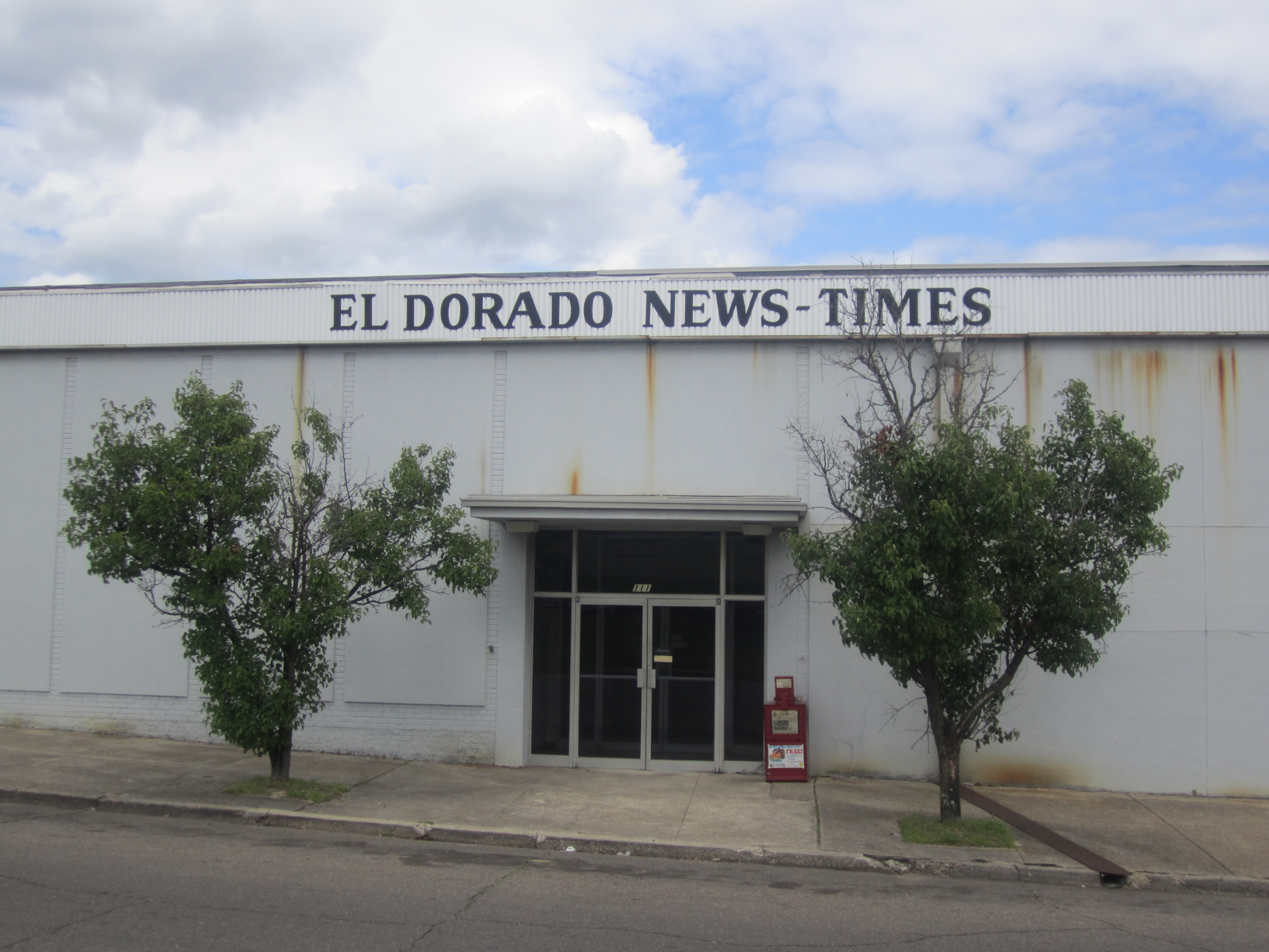 I took photo of El Dorado News-Times building with Canon camera.